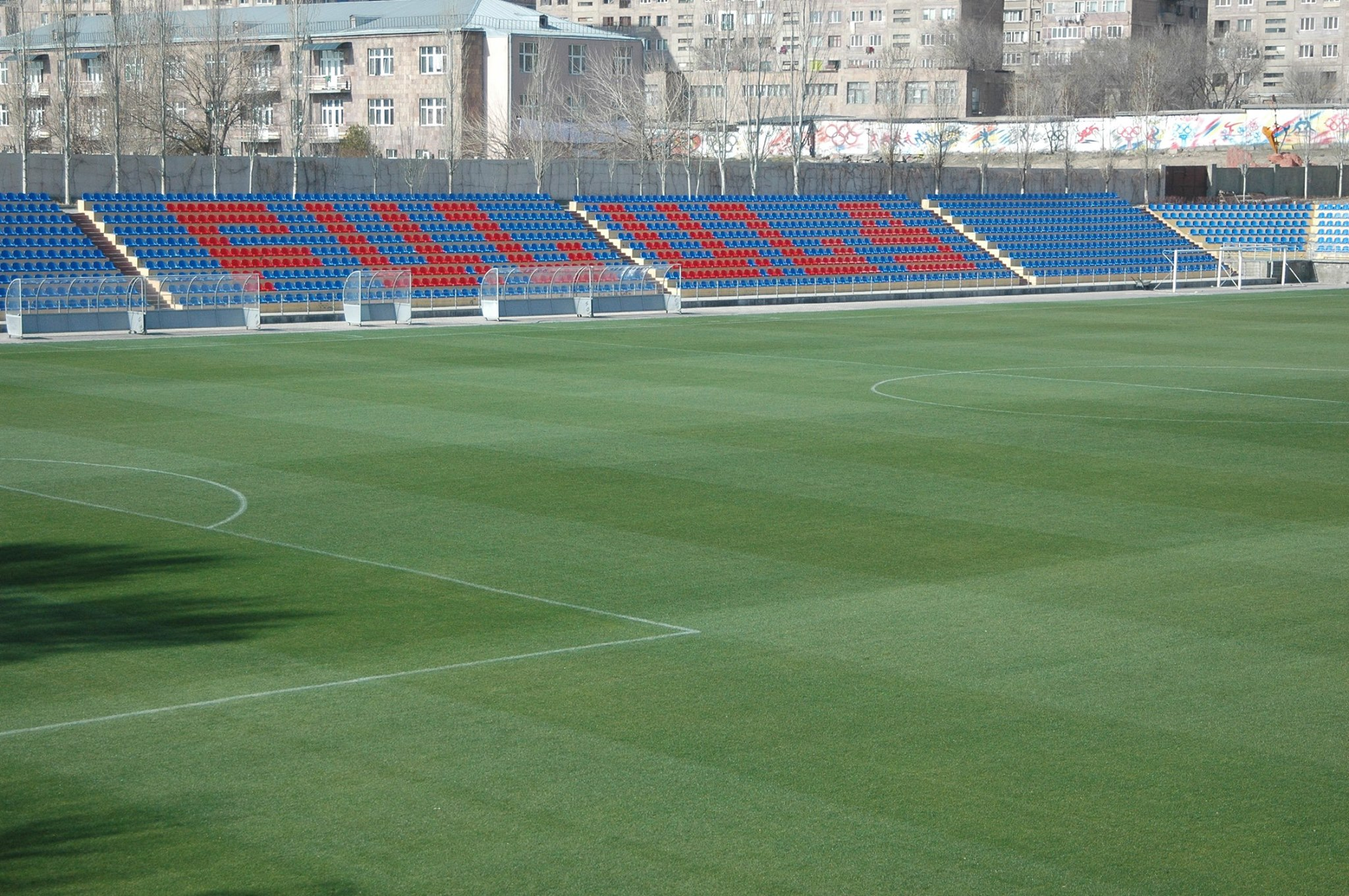 Banants stadium, Yerevan.